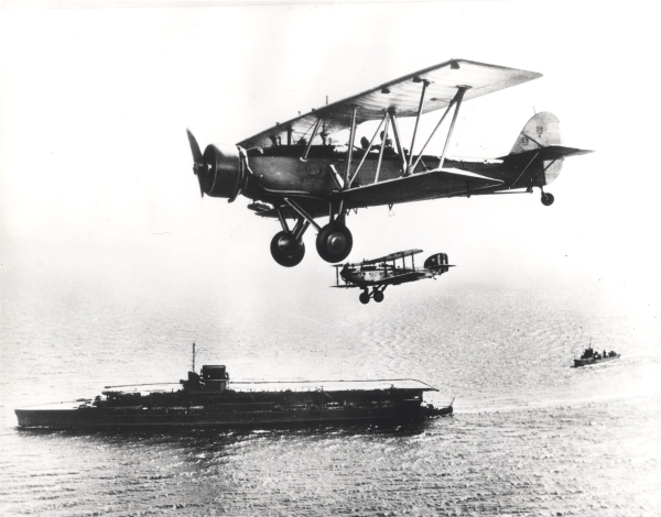 Image created by an employee of the British Government and published prior to 1956. IUmage is downloadable at no charge at the: [1]